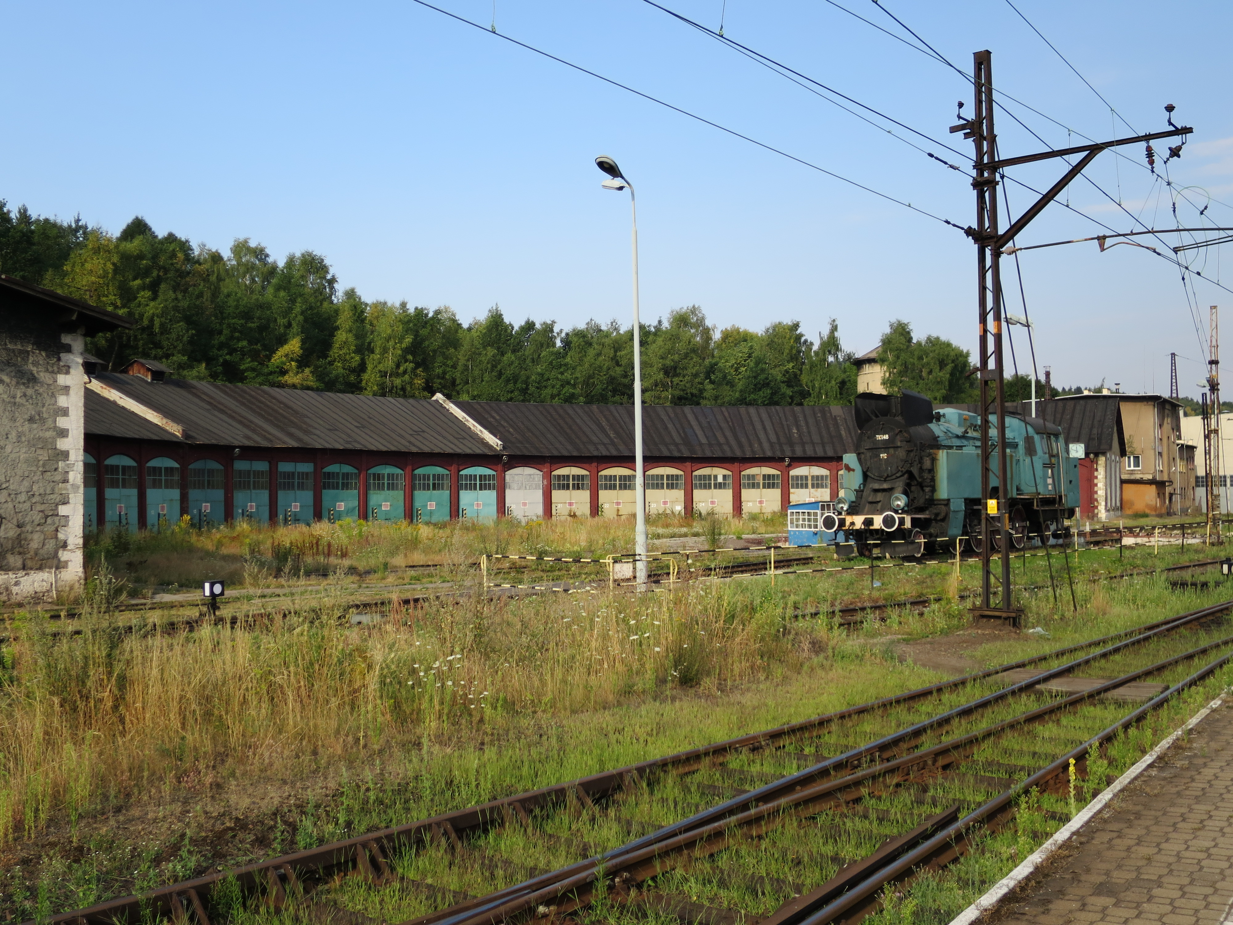 TKt48-119 Wałbrzych Główny This photo was taken during Railway Wikiexpedition 2015 set up by Wikimedia Polska Association in cooperation with Fundacja Grupy PKP. You can see all photographs in category Wikiekspedycja kolejowa 2015.